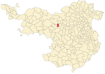 Sant Jaume de Llierca